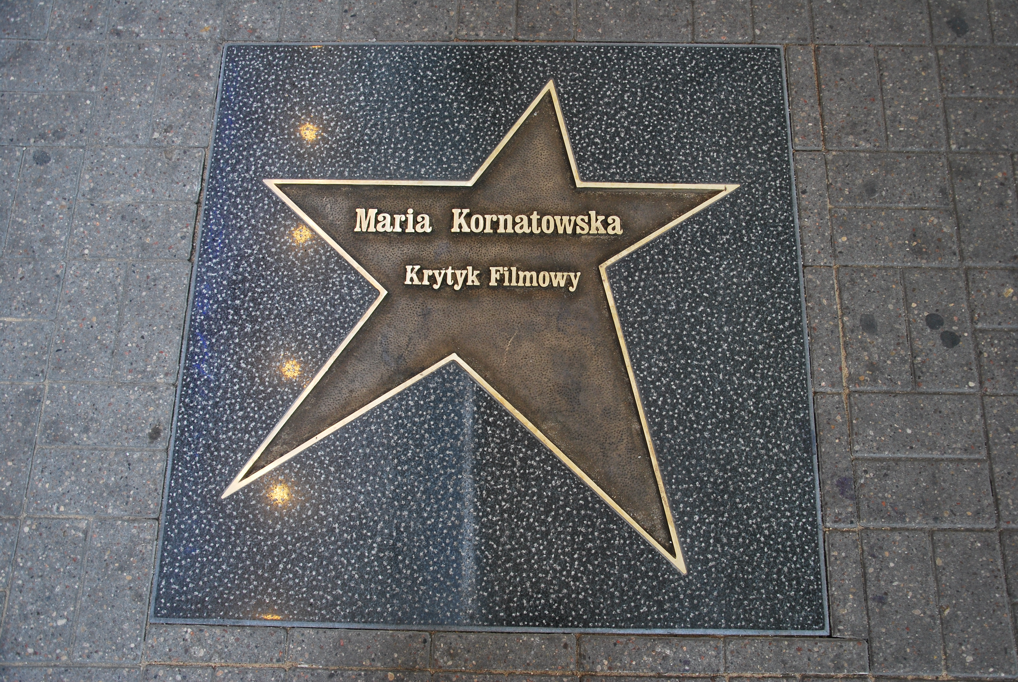 Maria Kornatowska's star in Łódź Walk of Fame